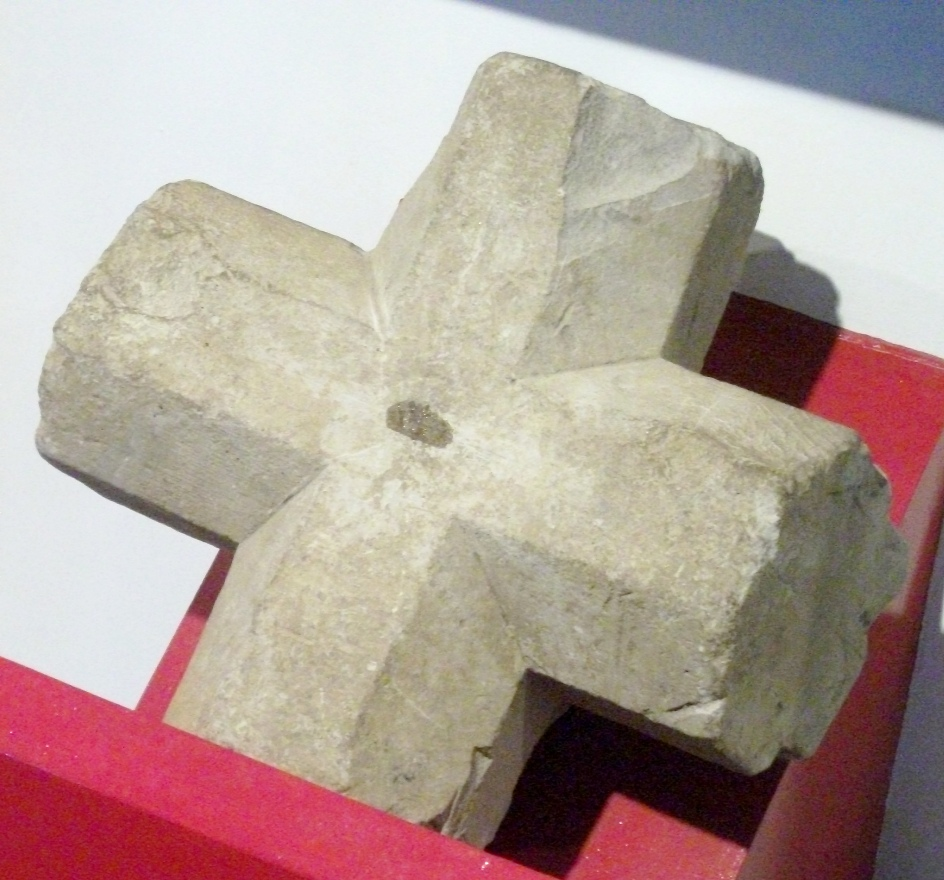 Stone from crossing of cloister vaulting at Eltsow Abbey, on display at Bedford Museum.